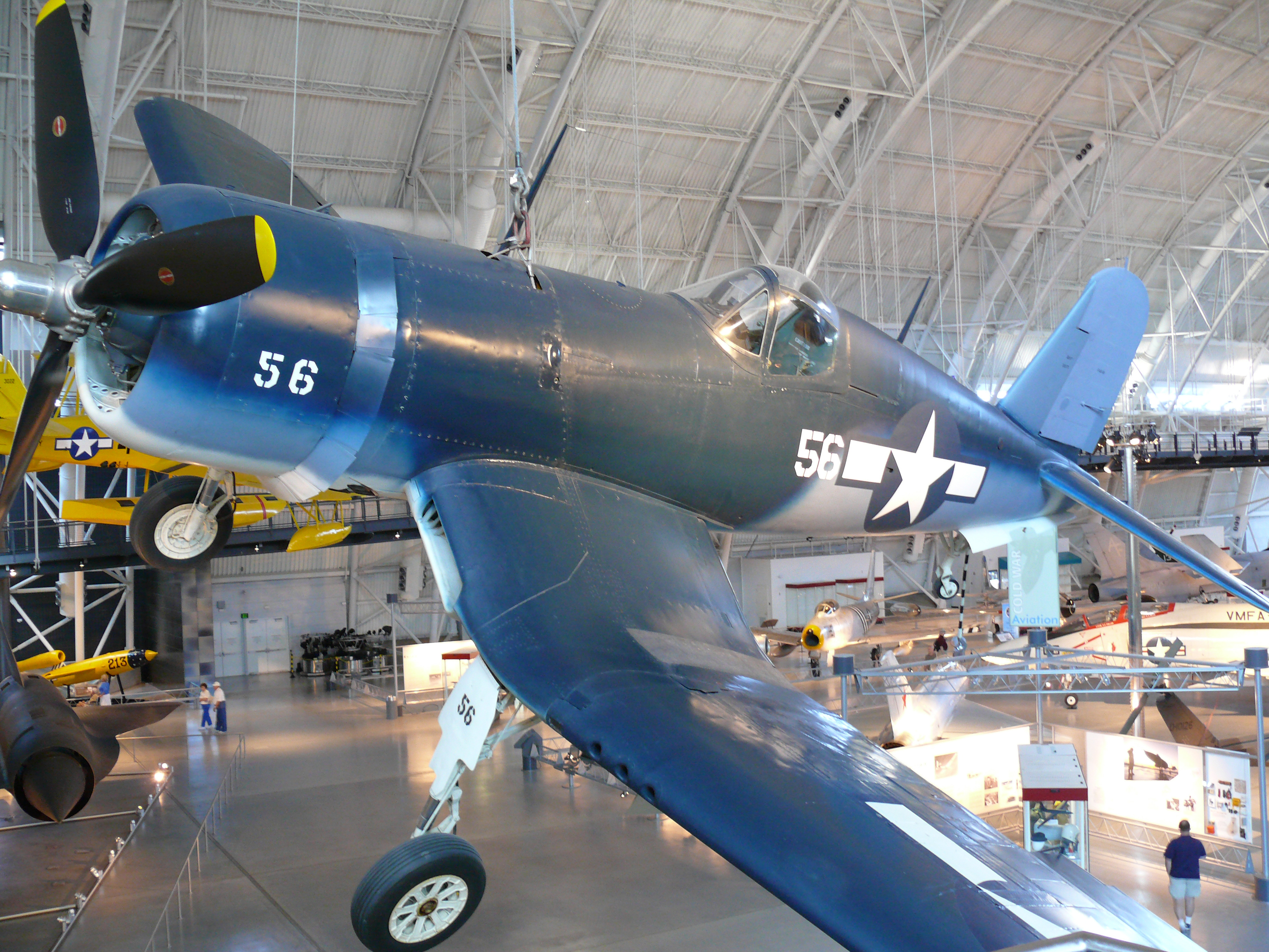 Chance Vought F4U Corsair in the National Air and Space Museum, Steven F. Udvar-Hazy Center, Washington DC. The Chance Vought F4U Corsair was a carrier-capable fighter aircraft that saw service in World War II and the Korean War. The Corsair served in some air forces until the 1960s, following the longest production run of any piston-engined fighter in U.S. history (1942–1952). Some Japanese pilots regarded it as the most formidable American fighter of World War II.